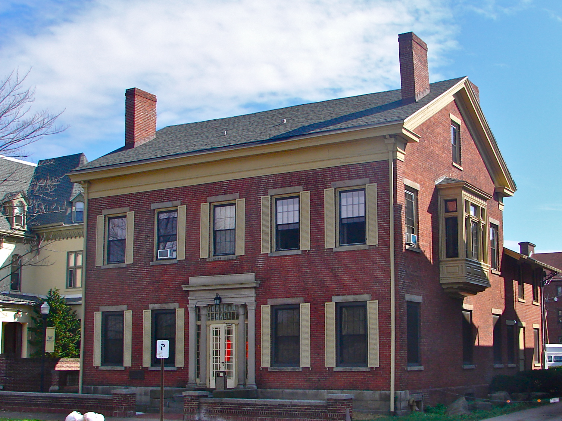 Catlin Hall, Wilkes College, 92 South River Street, Wilkes-Barre